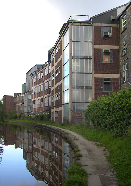 Sweet Factory and Canal, New Mills, Derbyshire This is the Upper Peak Forest Canal passing by the new part of Swizzels Matlow's sweet factory - can't you just SMELL those love hearts? History: .